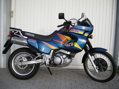 Yamaha XTZ 660 Ténéré.